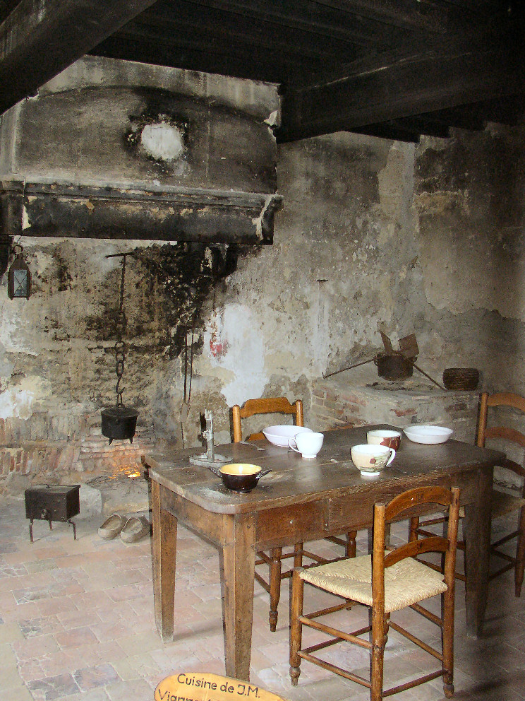 Kitchen of Jean-Marie Vianney (1786 – 1859) in Ars-sur-Formans (France)